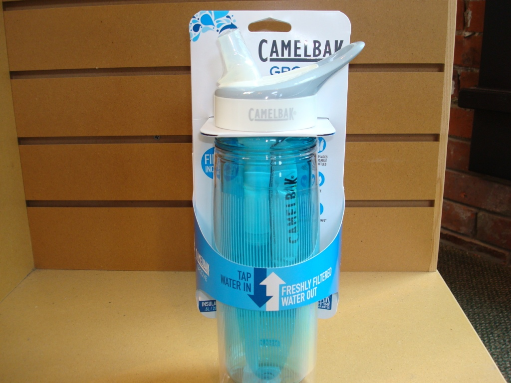 Example of carbon filtration water bottle.